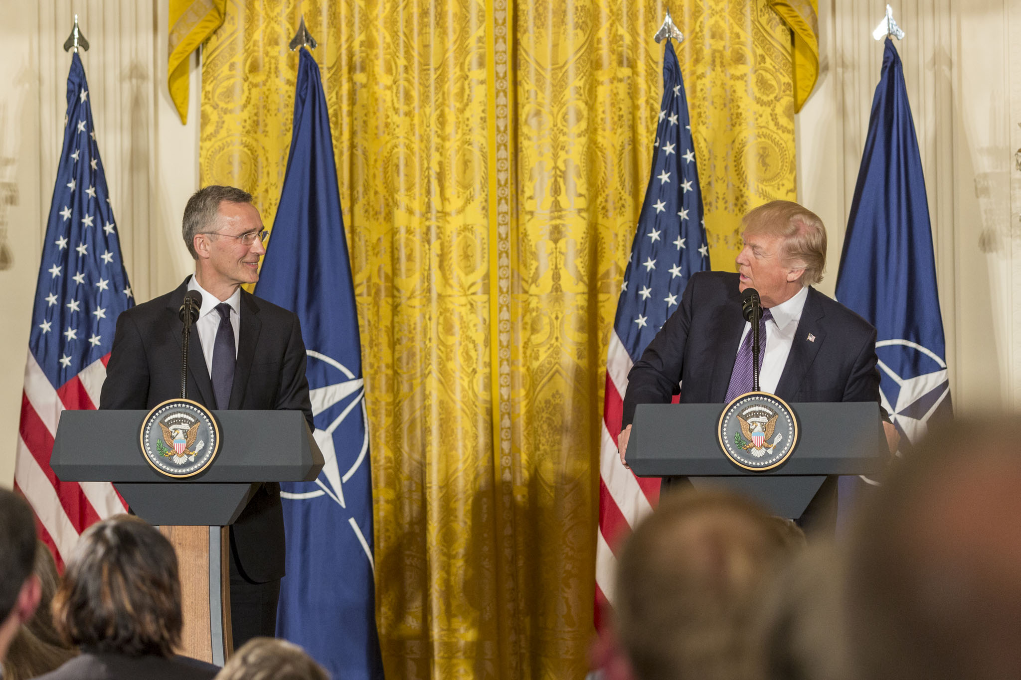 President Donald Trump and NATO Secretary General Jens Stolenberg participate in a joint press conference, Wednesday, April 12, 2017, in the East Room of the White House in Washington, D.C. (Official White House Photo by Shealah Craighead)